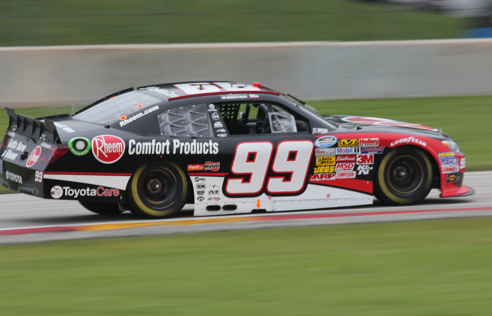 The passenger side of James Buescher Nationwide car during the 2014 Gardner Denver 200 at Road America. Taken while racing up the hill in turn 13.